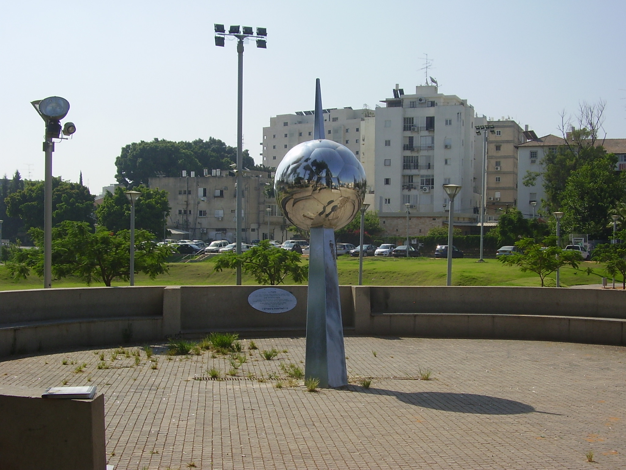 Moti Kind memorial in Rehovot